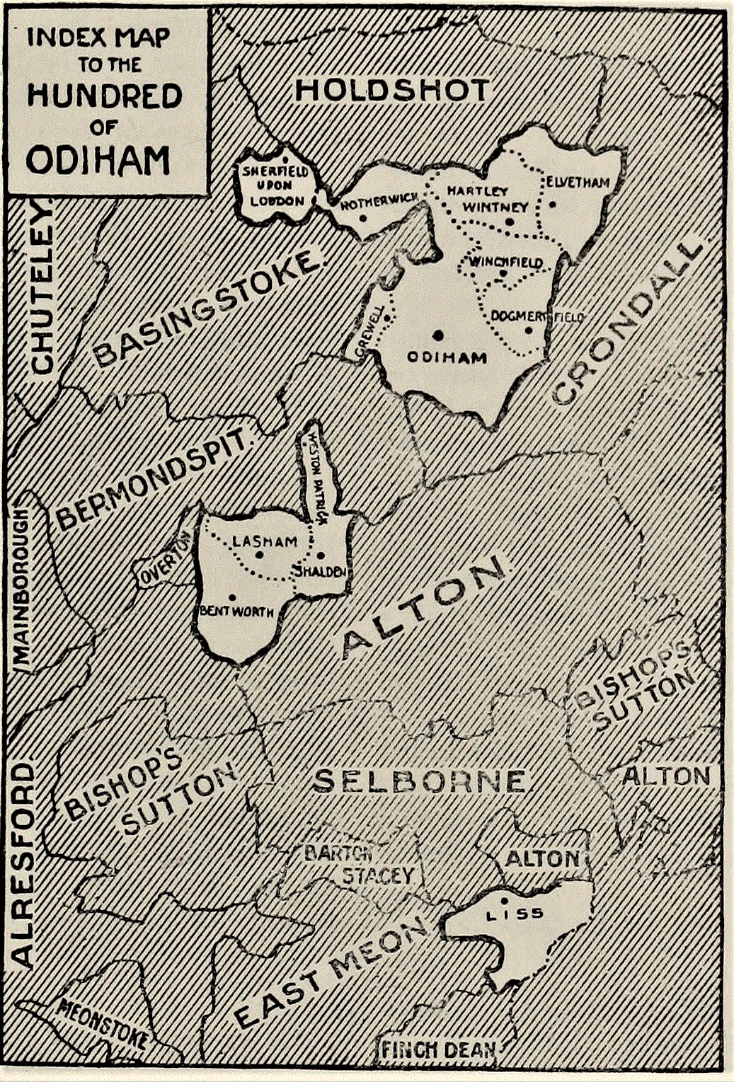 The Hundred of Odiham Index Map as known in the mid 1800s. The Odiham Hundred is highlighted in white, with outlying Hundreds in darker shades.